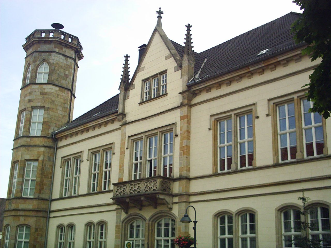 town hall, Horn-Bad Meinberg, Germany check usage